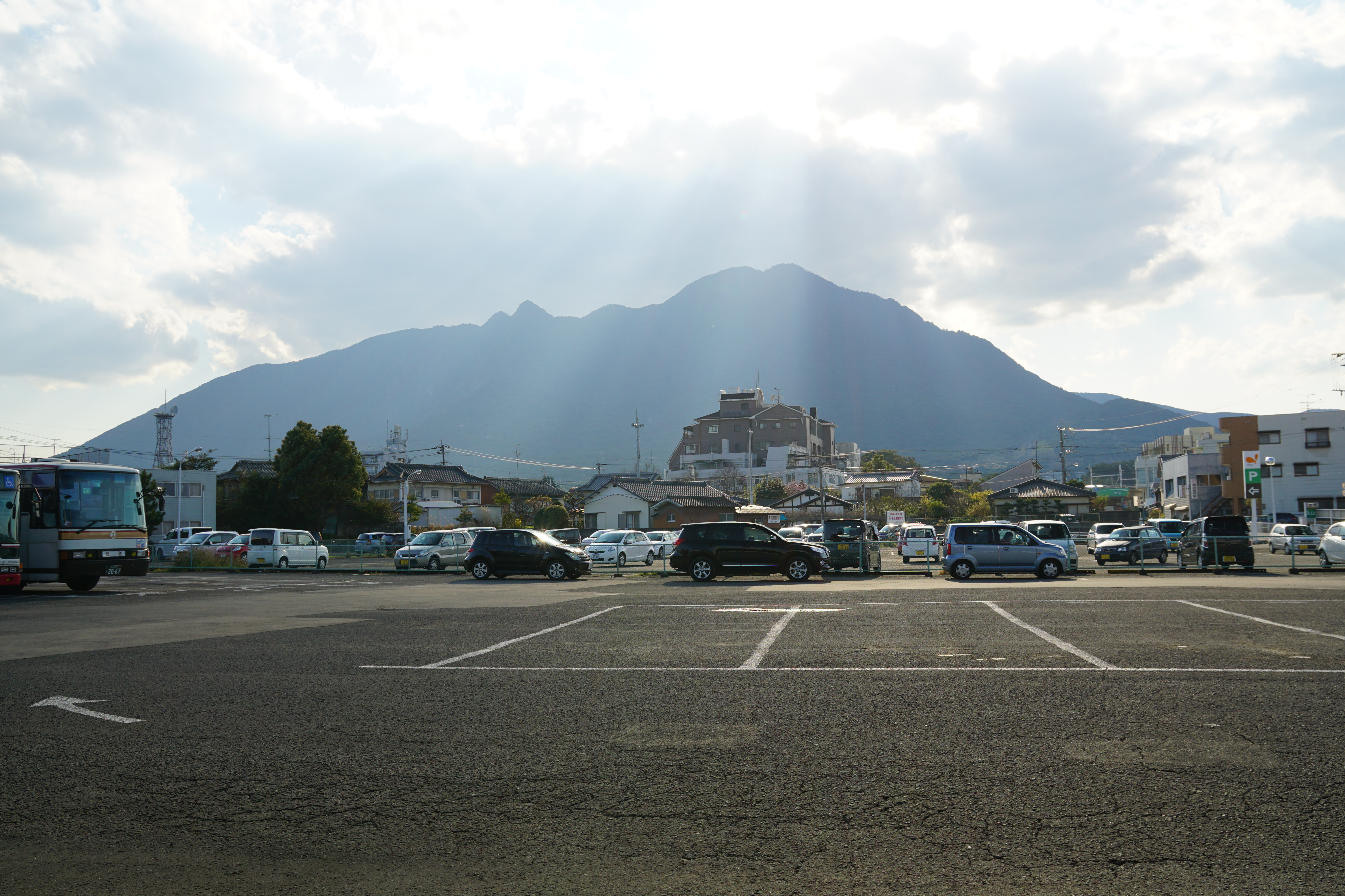 Shimatetsu Bus Terminal in Shimabara, Nagasaki prefecture, Japan.